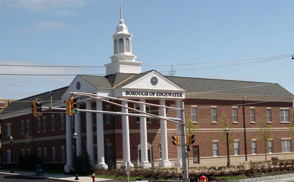 Located near the southern border of Edgewater, New Jersey, the Borough Hall began doing business on June 21, 2011. The Administrative offices and Police Department are based in the Borough Hall.